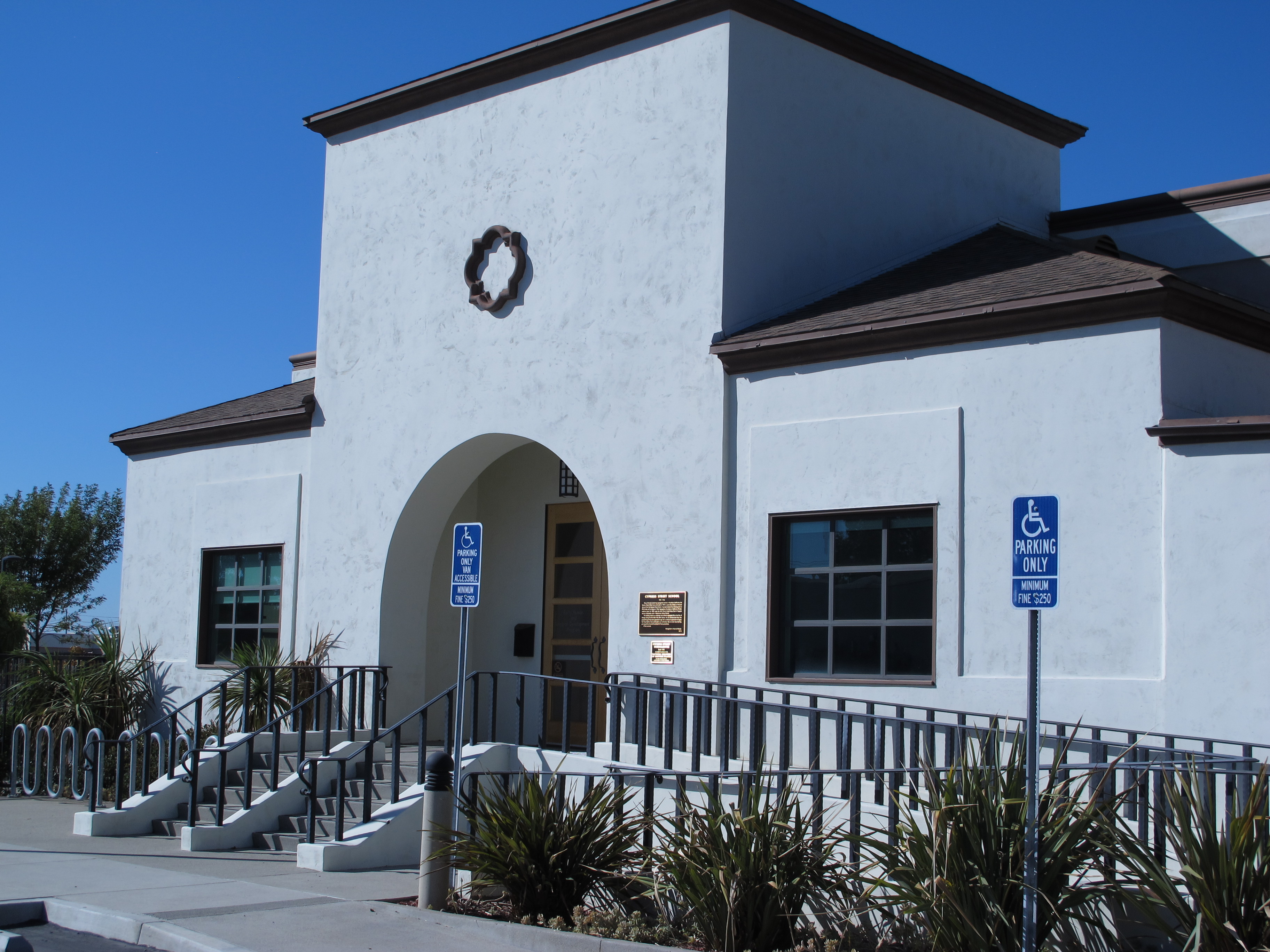 Cypress Street Schoolhouse, now renovated and houses the Chapman University in the City of Orange, Orange County, California.